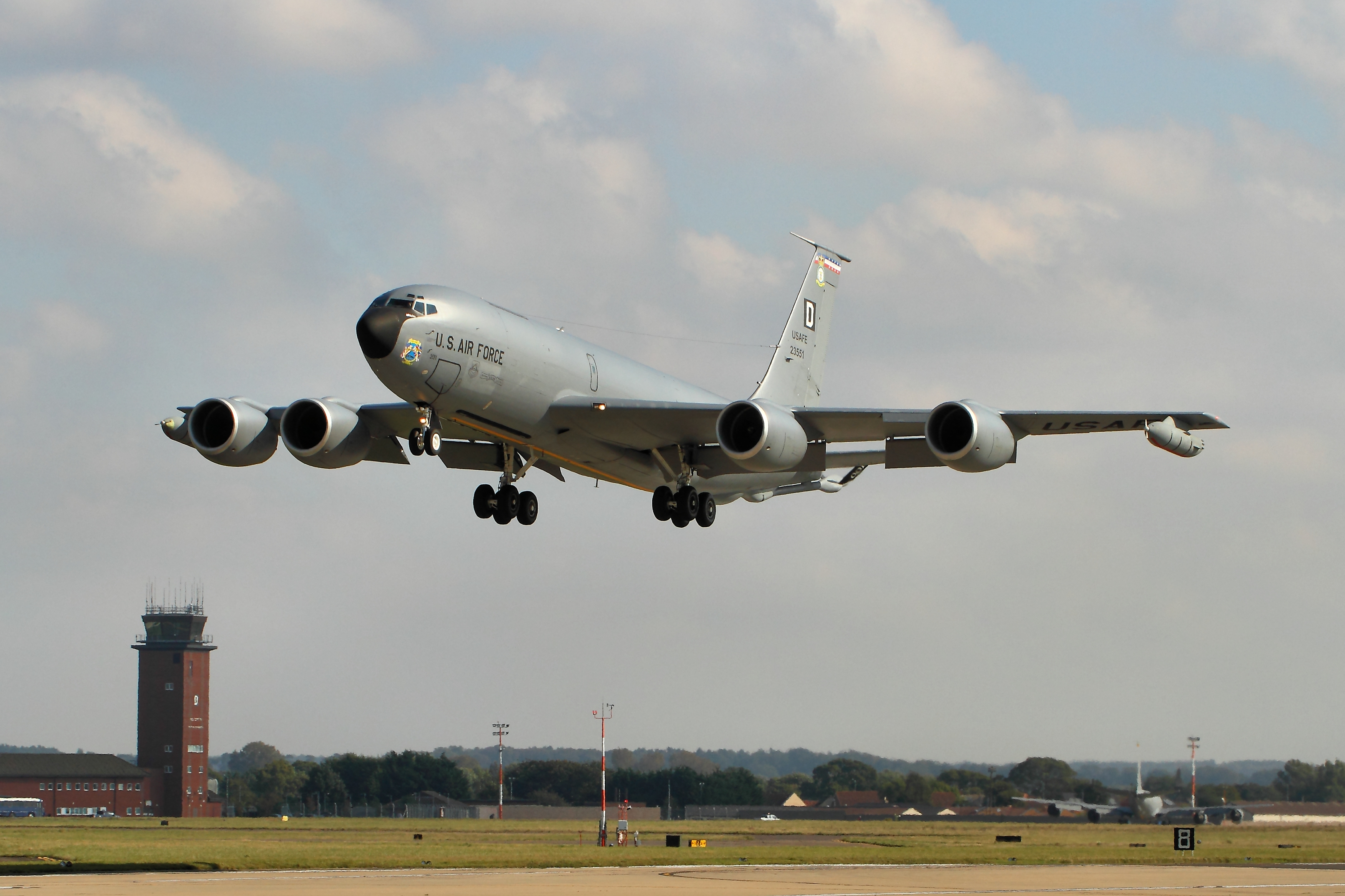 Mildenhall and Lakenheath